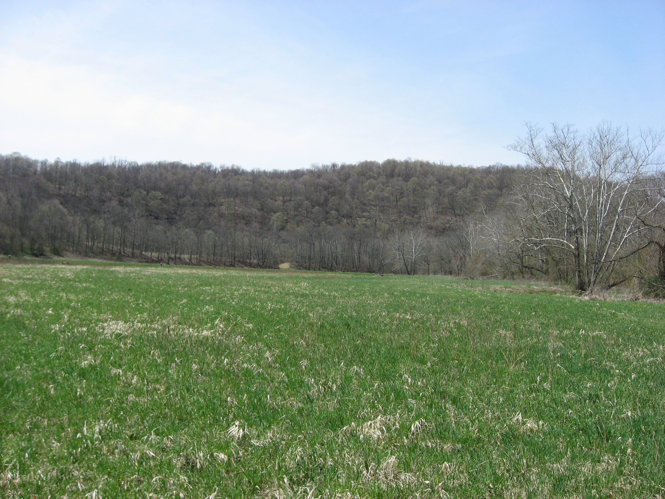 Fields at the Fisher Site, located off Camp Resort Road along the Enlow Fork in Richhill Township, Greene County, Pennsylvania, United States. The Fisher Site is an archaeological site that was once a village of the Monongahela culture of Native Americans. It is listed on the National Register of Historic Places.